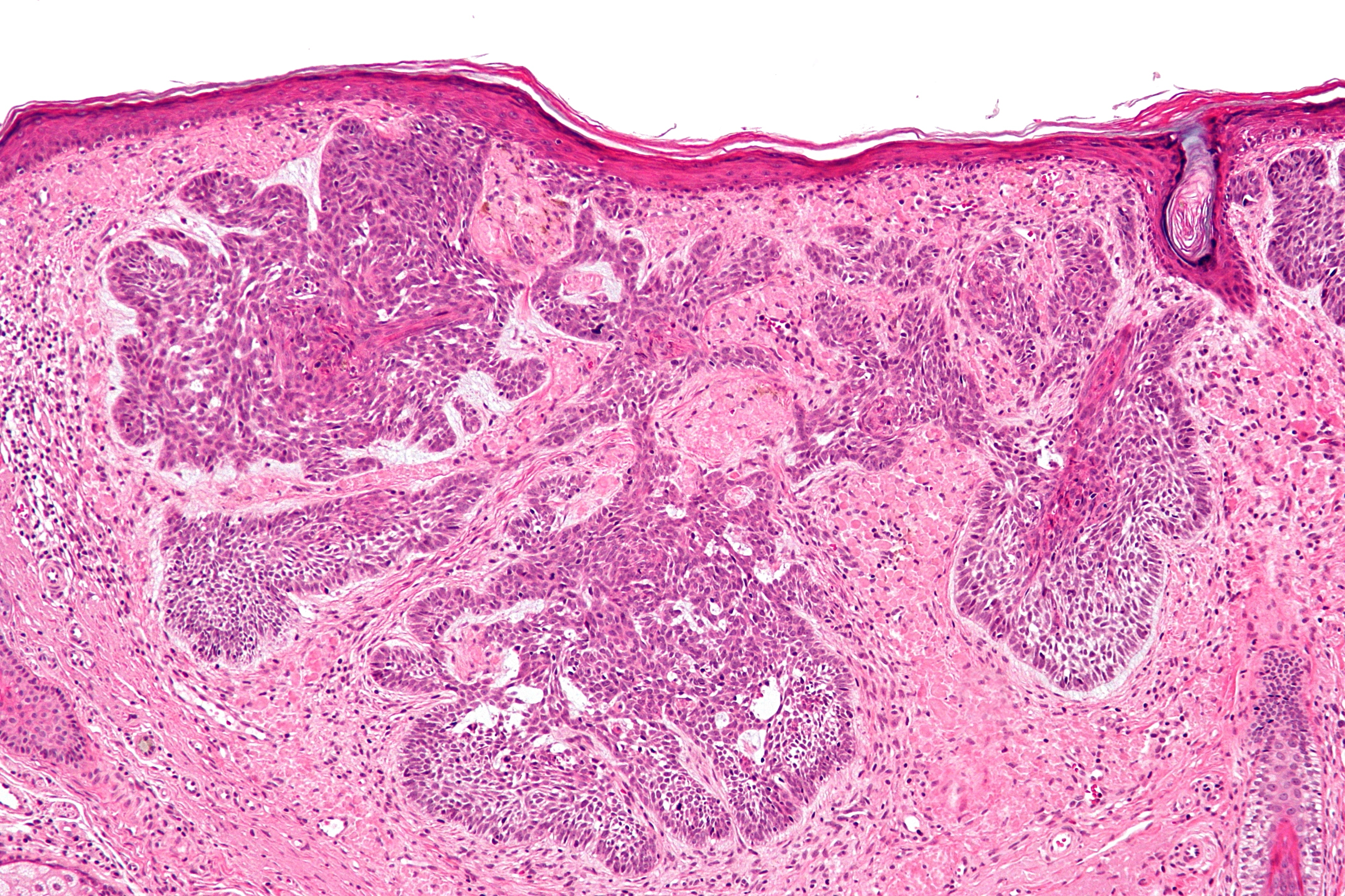 Intermediate magnification micrograph of a basal cell carcinoma. H&E stain. Related images Intermed. mag. Intermed mag. High mag. Very high mag.